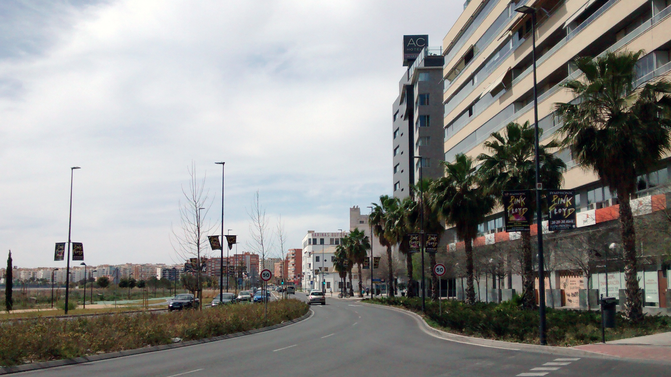 Beginning of Avenida de Elche, in Alicante, Spain.